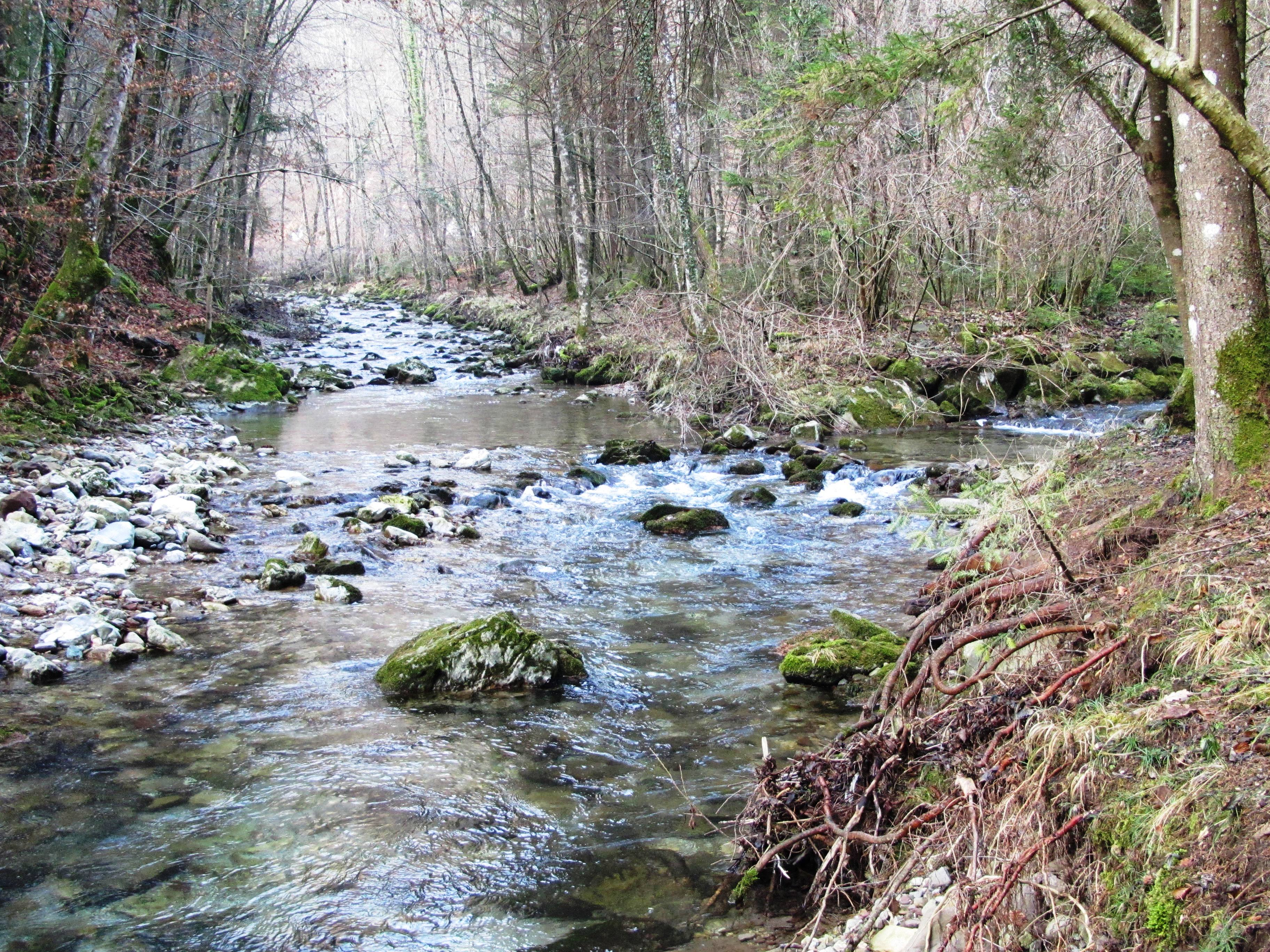 Confluence of the Big Božna (Sln. Velika Božna, left) and Little Božna (Sln. Mala Božna, right) rivers NNW of Polhov Gradec in the Municipality of Dobrova–Polhov Gradec, Slovenia